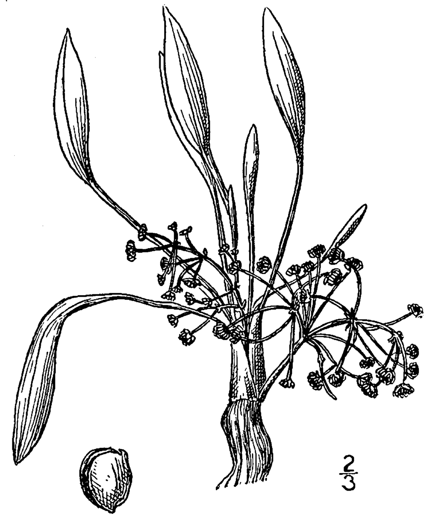 Narrowleaf Water Plantain. Drawing.